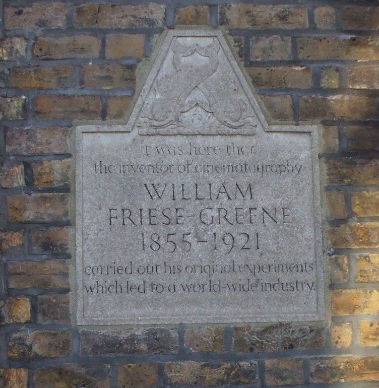 Plaque located at 20 Middle Street, Brighton "It was here that the inventor of cinematography, William Friese-Greene, carried out his original experiments which led to a world-wide industry"